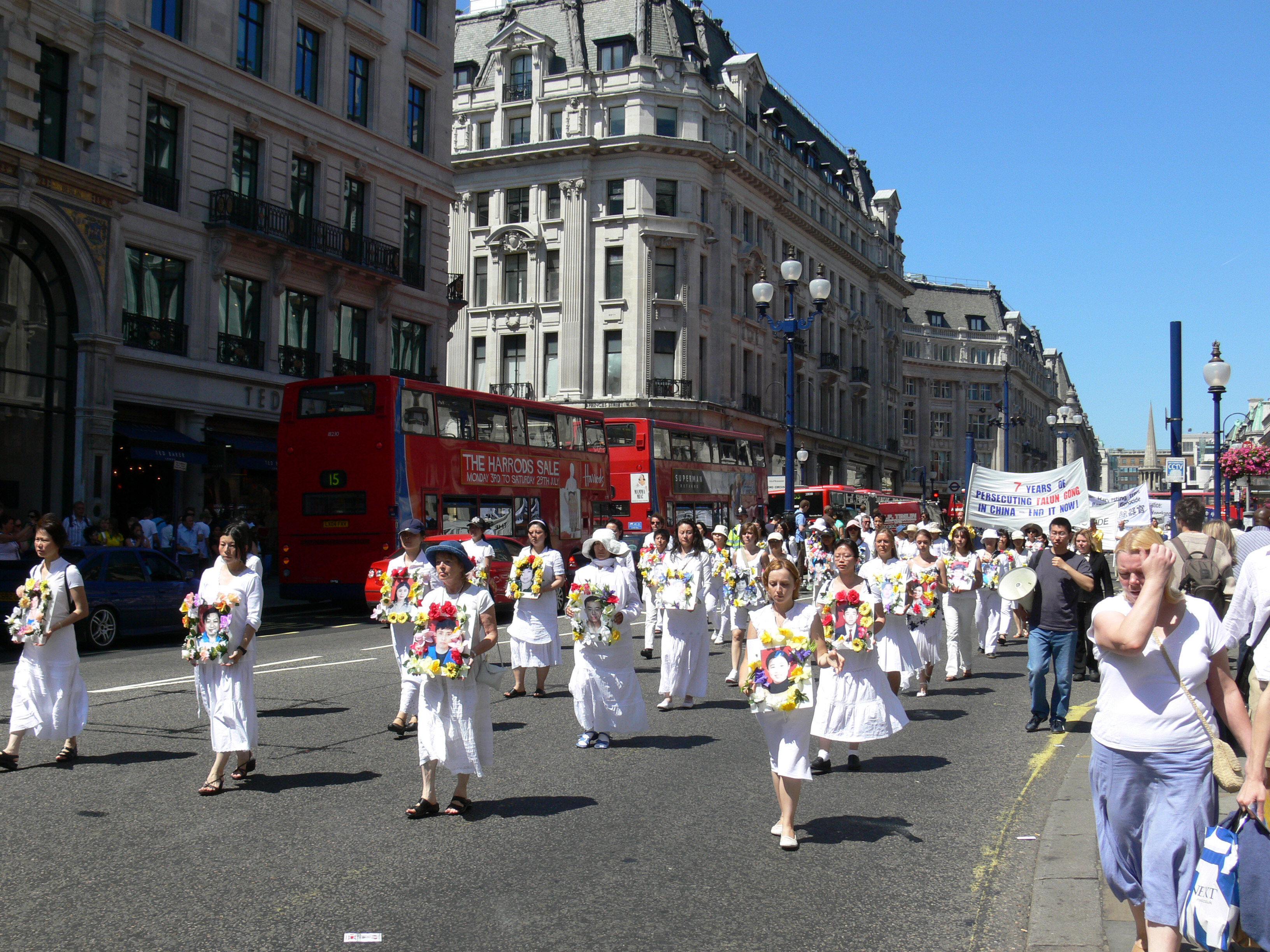 Falun Gong protest in London, in Portland Pl not far from the Chinese Embassy.